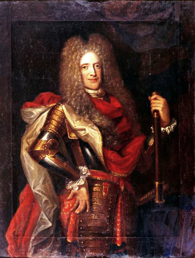 Anthony Ulrich, Duke of Brunswick-Wolfenbüttel (1633-1714)